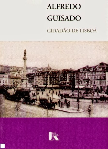 Frontis centro cultural***